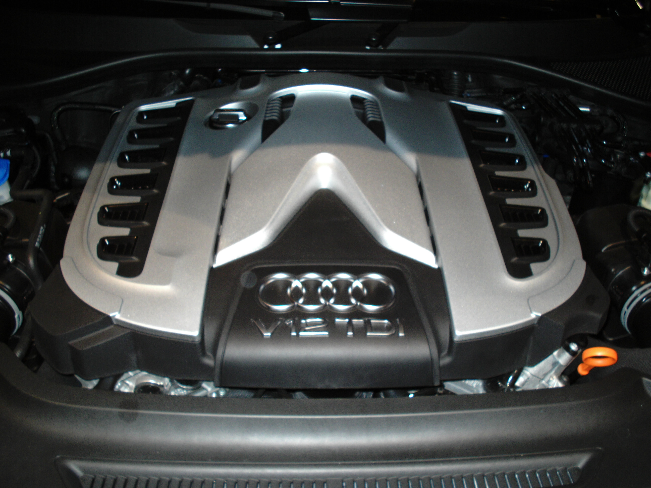 Audi Q7 6.0 liter V12 TDI engine front-view on the AutoRAI 2009